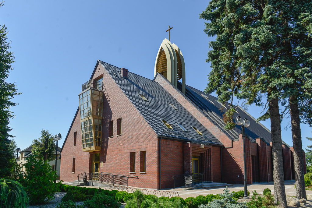 Catholic church in Jankowice near Pszczyna, Upper Silesia, Poland